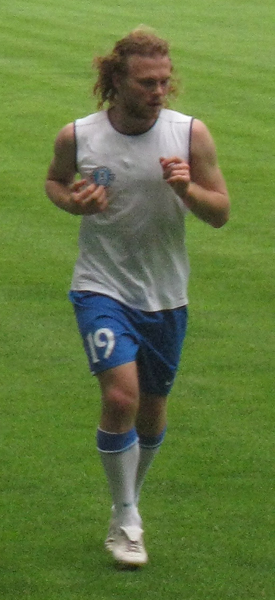 Vitaliy Denisov during open training of FC Dnipro Dnipropetrovsk on Dnipro-Arena